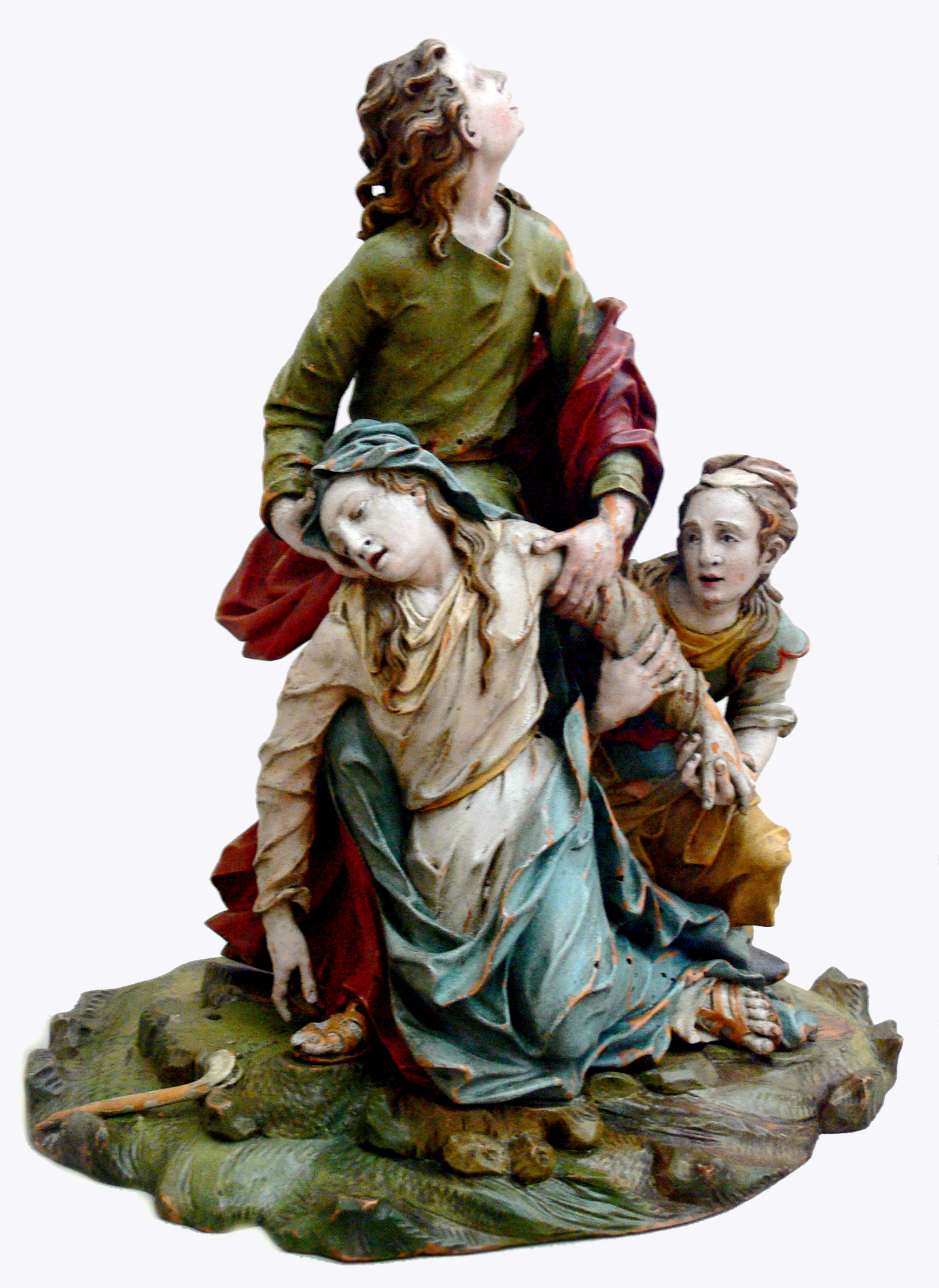 Johann Peter Schwanthaler the Elder: Mourning Mary with John the Apostle and Mary Magdalene, c. 1760/1770, limewood with original colouring. Skulpturensammlung (inv. no. 3114, acquired in 1908), Bode-Museum Berlin.